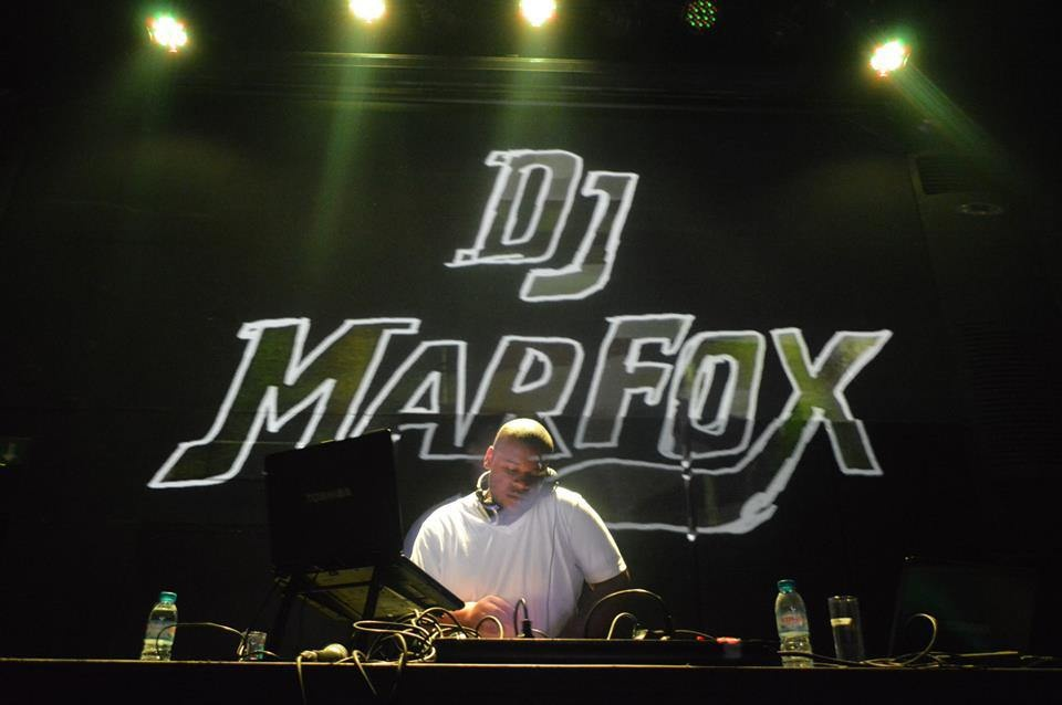 DJ Marfox playing in Music Box 2013